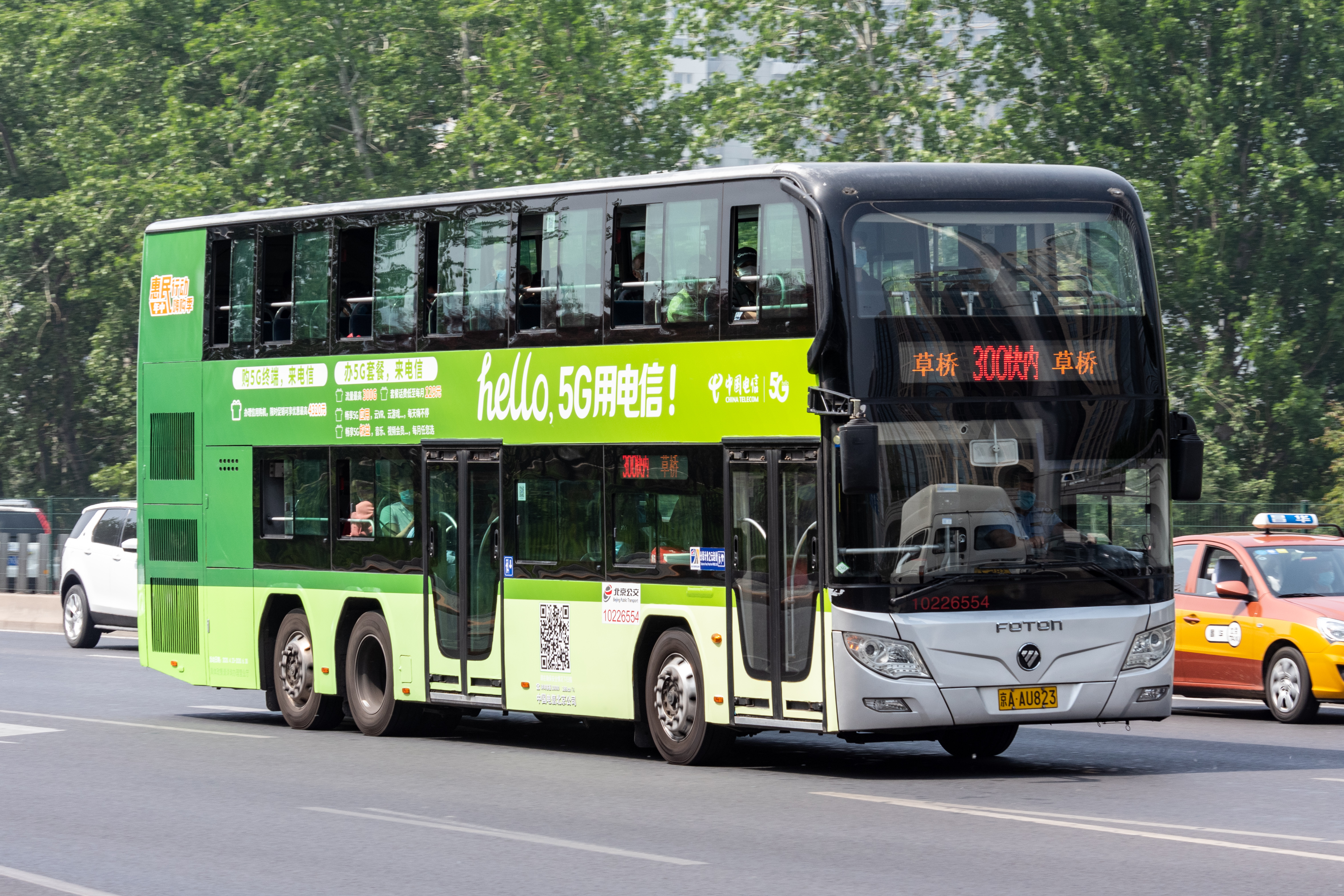 Seen with China Telecom 5G advertisement.